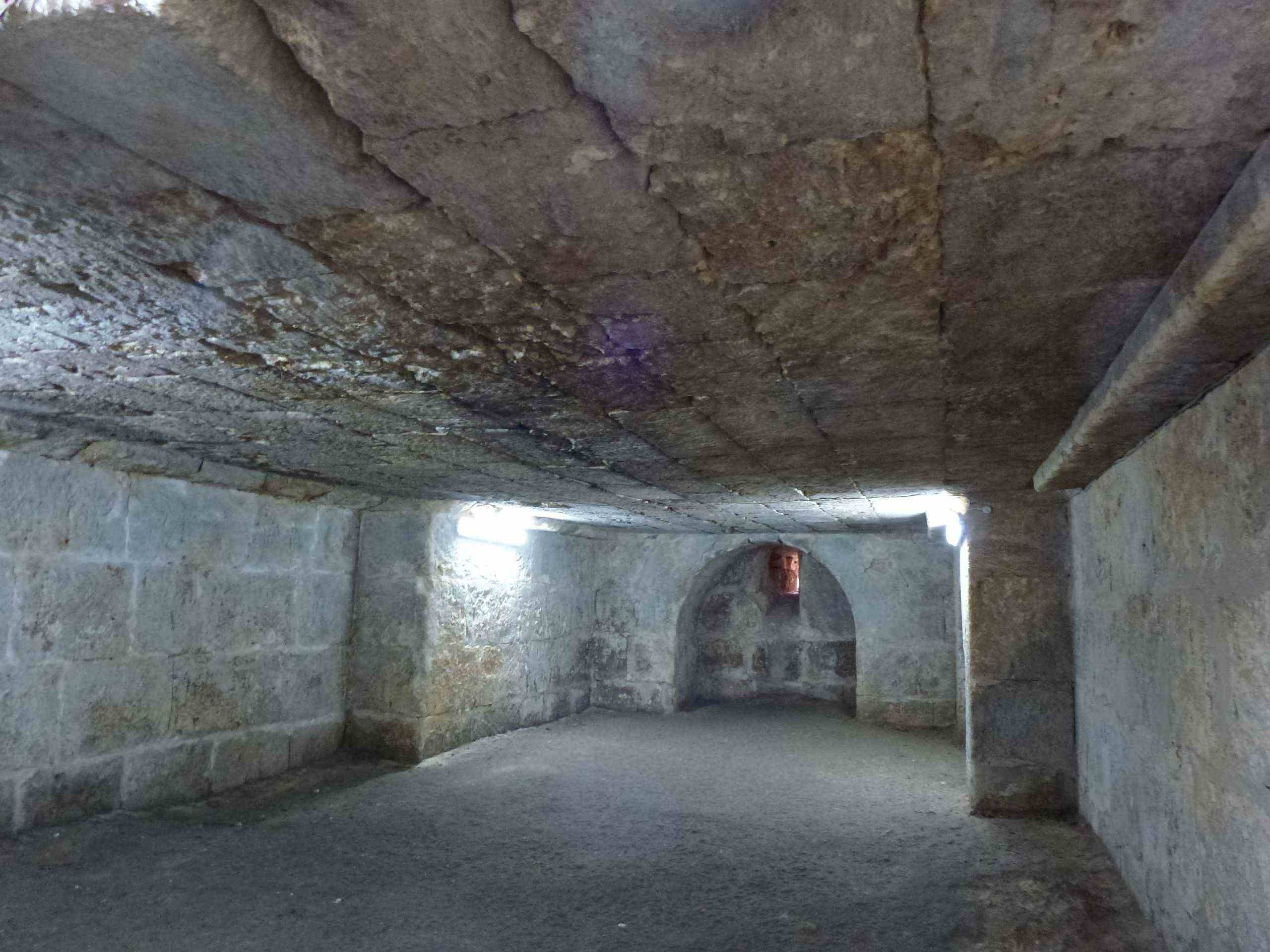 A Jack arch under a chapel in the Deir-Al-Zafaran monastery in eastern Turkey.